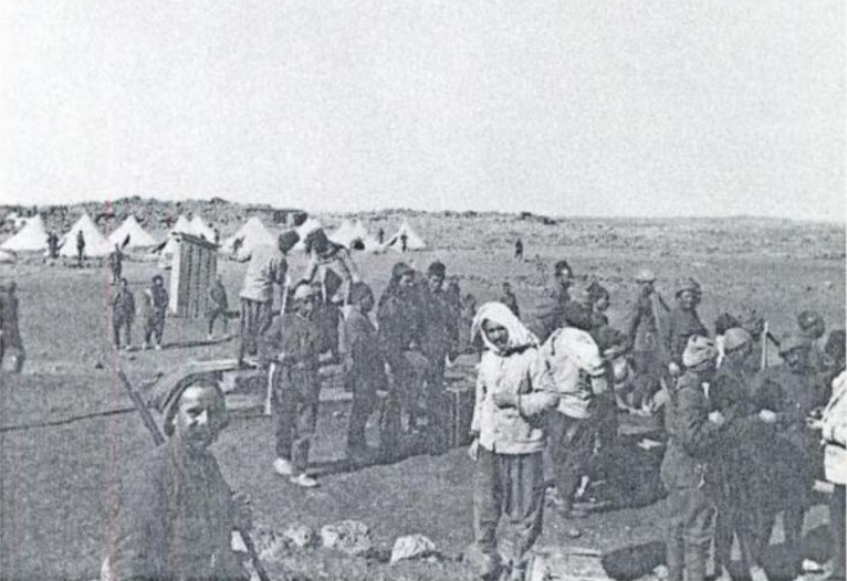 Ottoman soldiers of the Hauran Druze campaign (1910), troops of Sami Pasha al-Faruqi. Troops pictured near Daraa station of the Hejaz Railway where they were involved in putting down the Druze revolt and the Al-Karak revolt